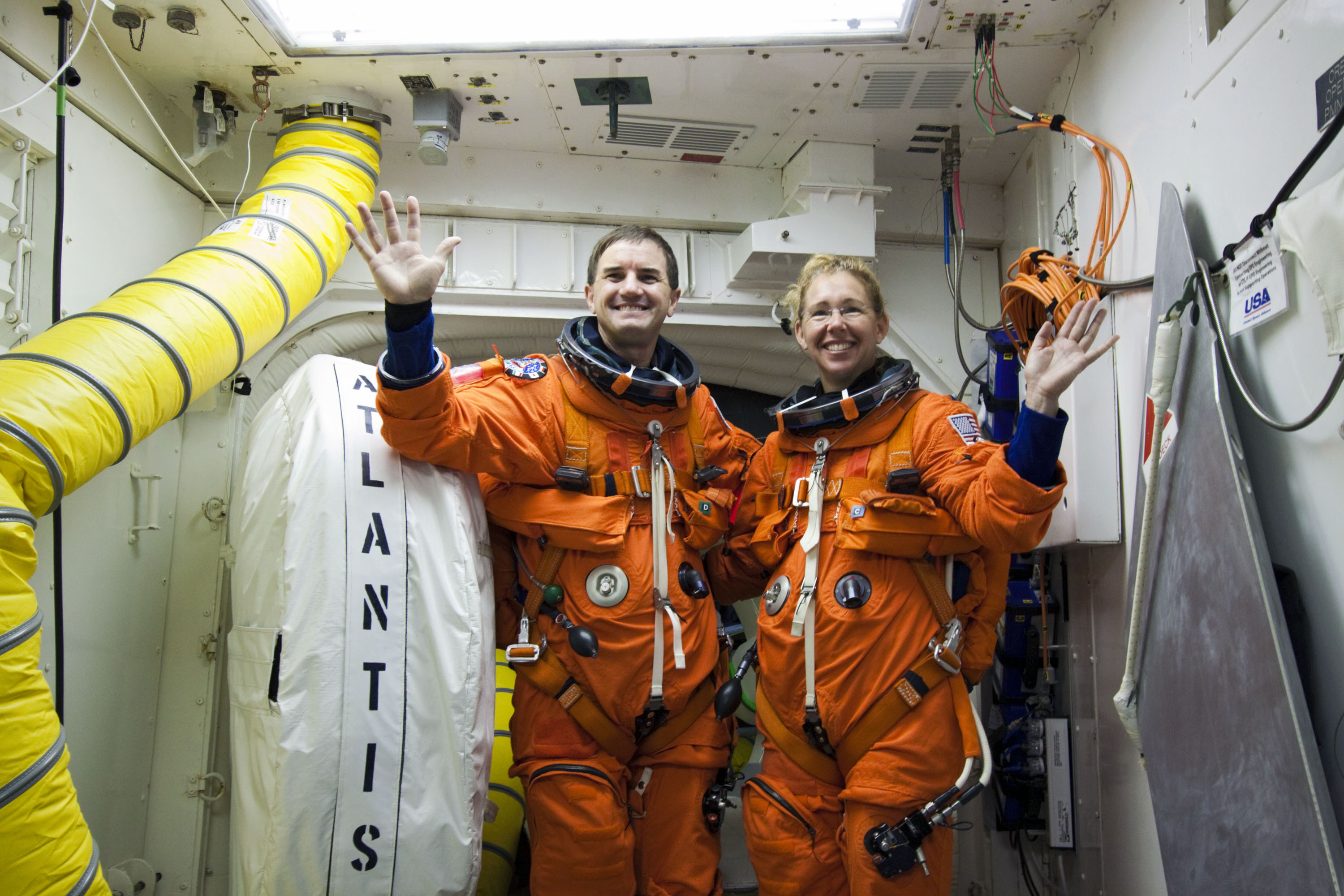 CAPE CANAVERAL, Fla. – In the White Room at Launch Pad 39A at NASA's Kennedy Space Center in Florida, STS-135 Mission Specialists Rex Walheim and Sandy Magnus pause for a photo before boarding space shuttle Atlantis through the crew hatch in the background. The astronauts are at the pad to participate in a launch countdown simulation exercise. As part of the Terminal Countdown Demonstration Test (TCDT), the crew members are strapped into their seats on Atlantis to practice the steps that will be taken on launch day. Shuttle Atlantis and its crew are targeted to lift off July 8, taking with them the Raffaello multi-purpose logistics module packed with supplies and spare parts to the International Space Station. The STS-135 mission also will fly a system to investigate the potential for robotically refueling existing satellites and return a failed ammonia pump module to help NASA better understand the failure mechanism and improve pump designs for future systems. STS-135 will be the 33rd flight of Atlantis, the 37th shuttle mission to the space station, and the 135th and final mission of NASA's Space Shuttle Program. For more information visit